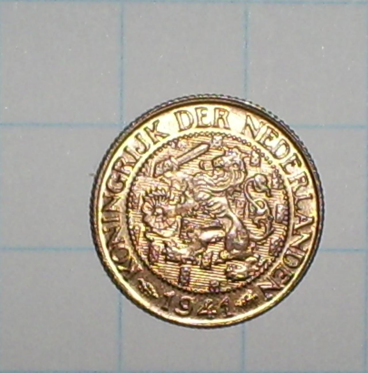 1 cent coin, 'head' side, The Netherlands, 1941.